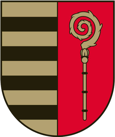 Coat of arms of Krāslava Municipality, Latvia.